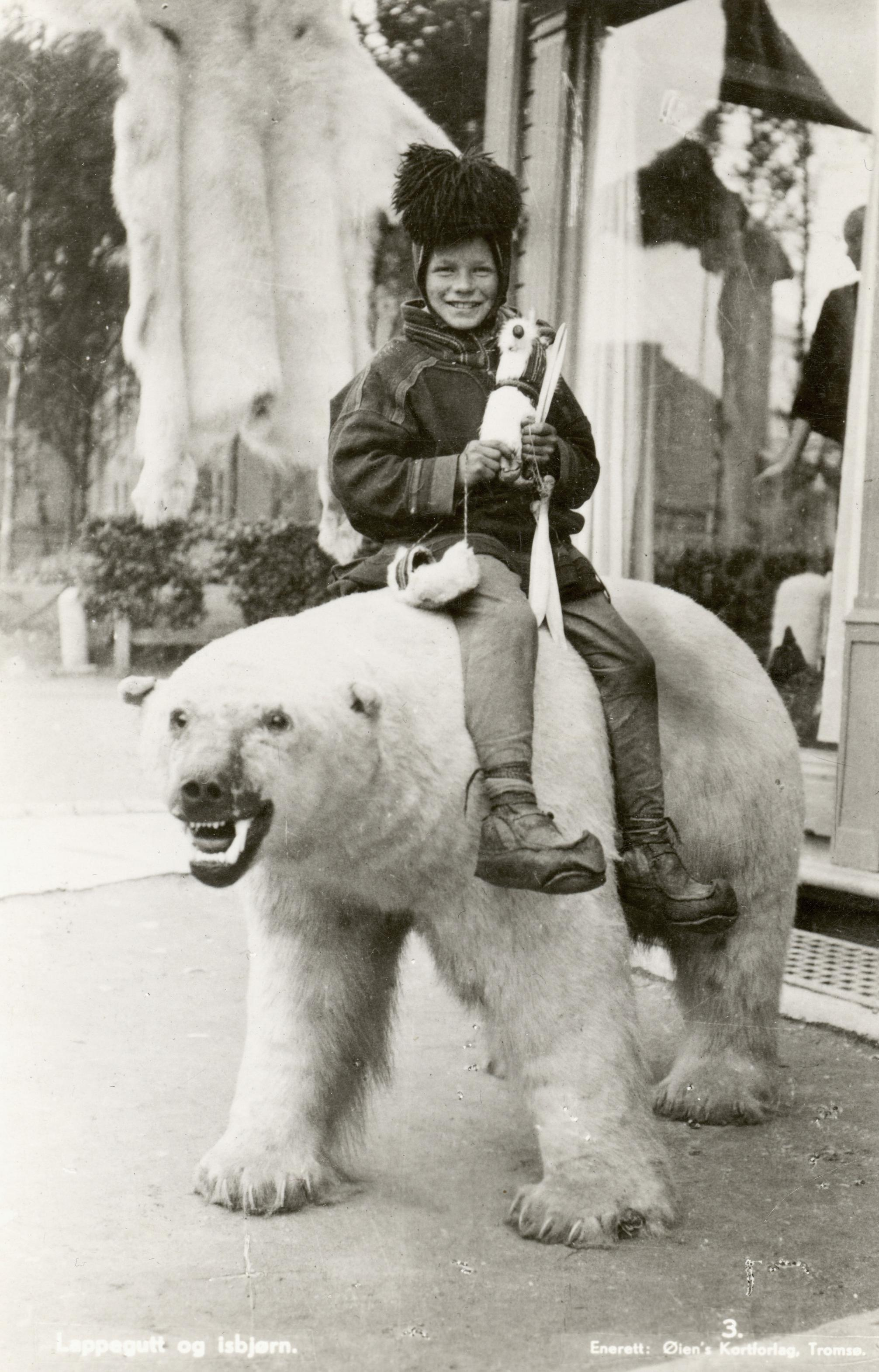 Title: Lappegutt og Isbjørn, i.e. Sami boy and ice-bear. Photo is very likely from inner Finnmark, Norway ca. 1929. Public postcard